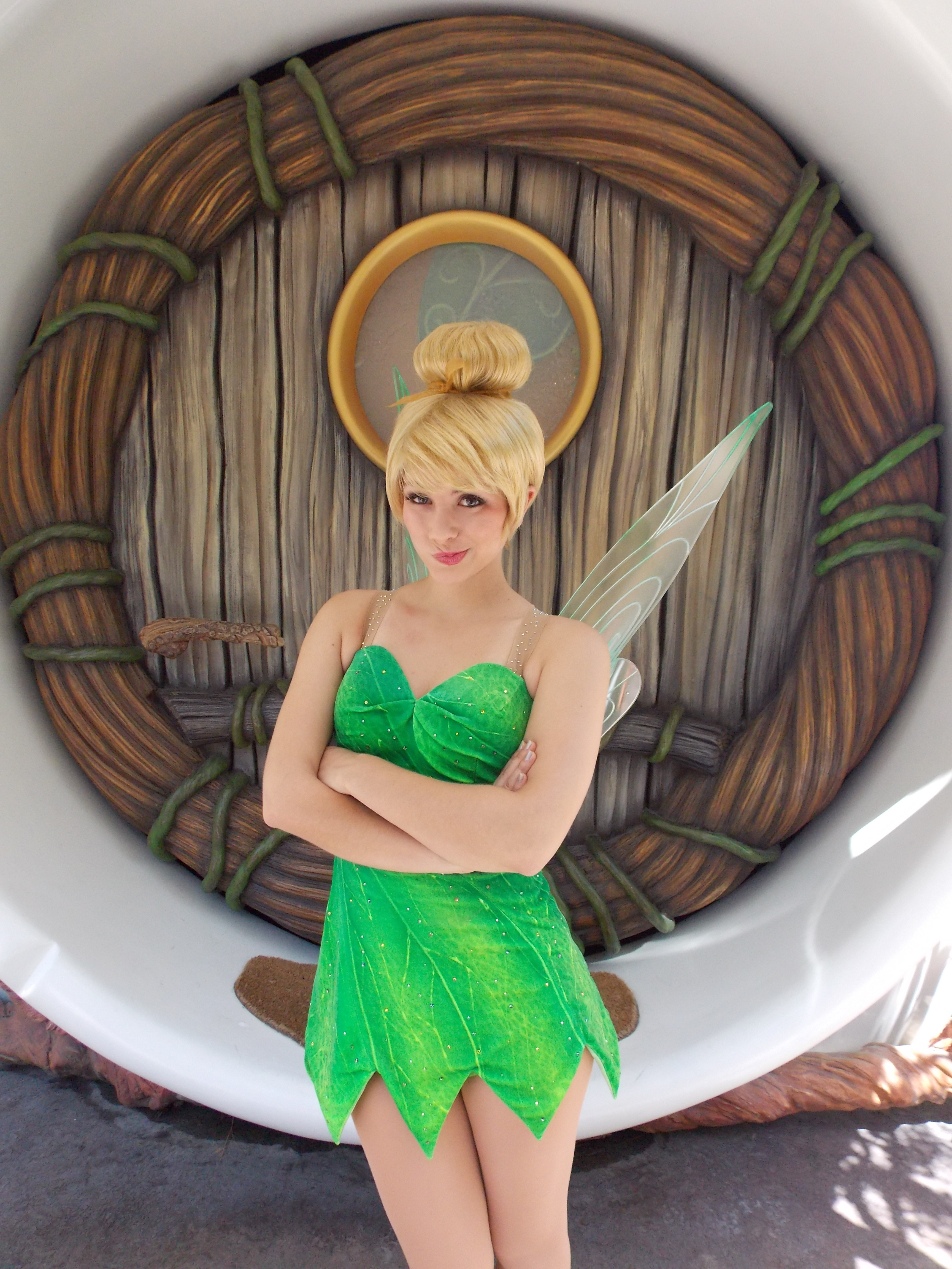 Tinker Bell at the Pixie Hollow attraction, Disneyland.